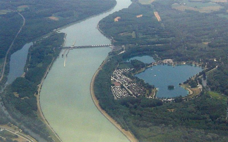 Lake Ausee and hydroelectric power plant Abwinden-Asten, Upper Austria, Austria